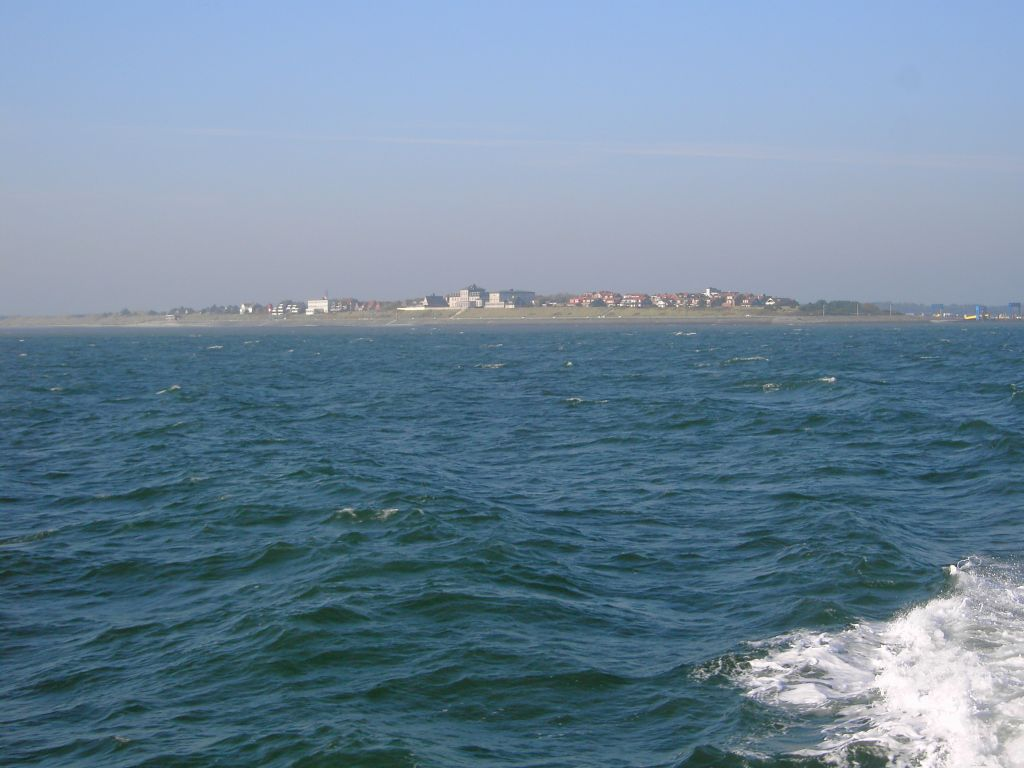 View from the North Sea to the Southeastern coast of Wittdün on the German Island Amrum. Shot by Mghamburg